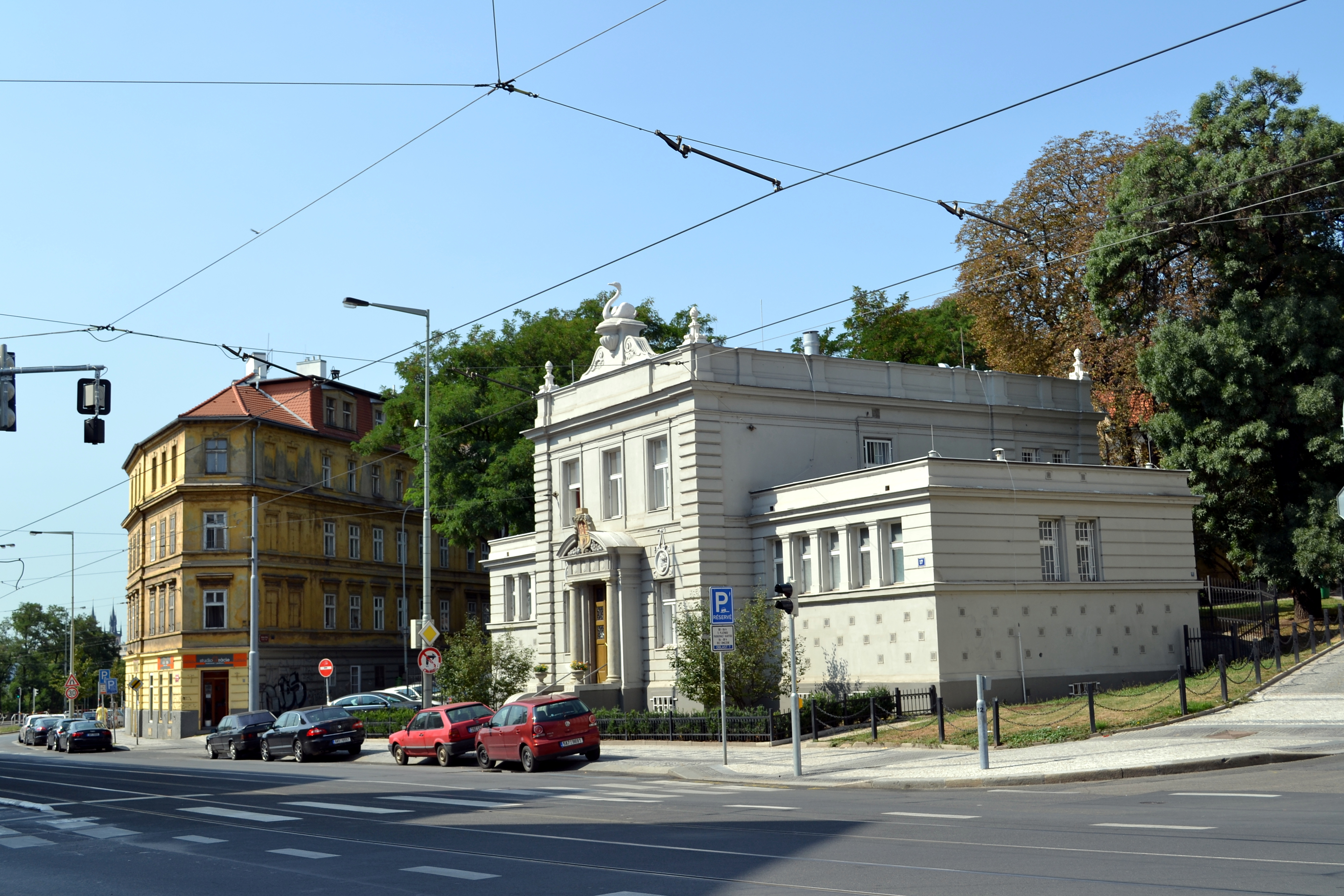 Neo-Renaissance building of "Holešovické lázně" ("Holešovice spa"), Dukelských hrdinů 848/17, Holešovice, Prague 7, Czech Republic.